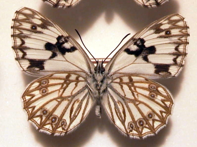 Melanargia occitana, mounted